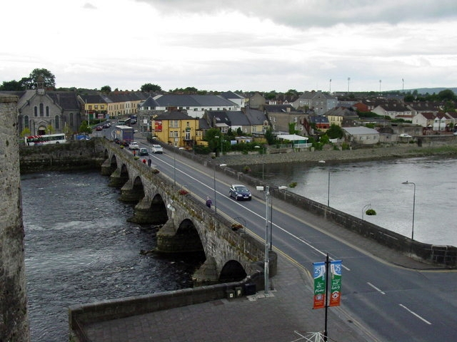 Limerick - Thomond Bridge Thomond Bridge is the most northern of the three road bridges that span the River Shannon at Limerick.